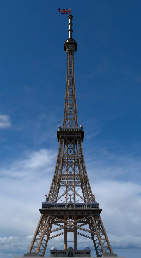 An attempt to model the Watkin's Tower in 3D with Blender 2.79b. This was the latest conception of the tower (with 4 feet, which looks more like the Eiffel Tower). This last point is especially important since most of the images found on the internet depict the version with 8 feet, which was in fact an earlier version; it was then scaled back to a cheaper, four-legged design.